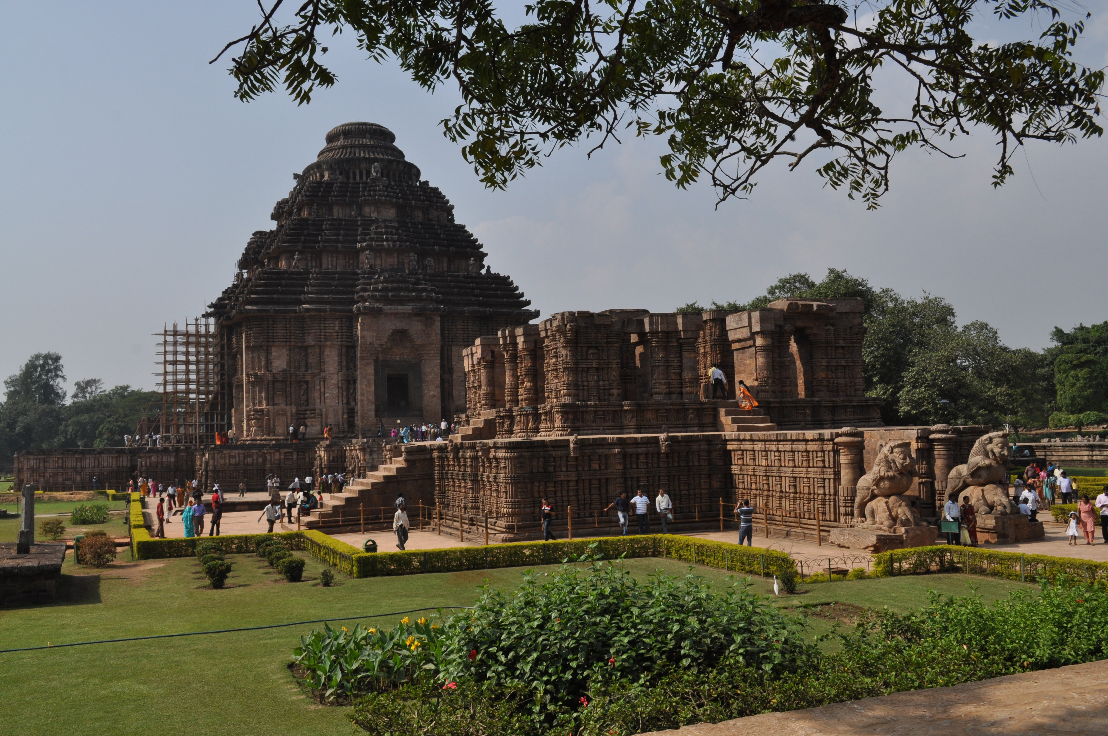 A view of SUN TEMPLE, KONARK, ORRISSA, INDIA